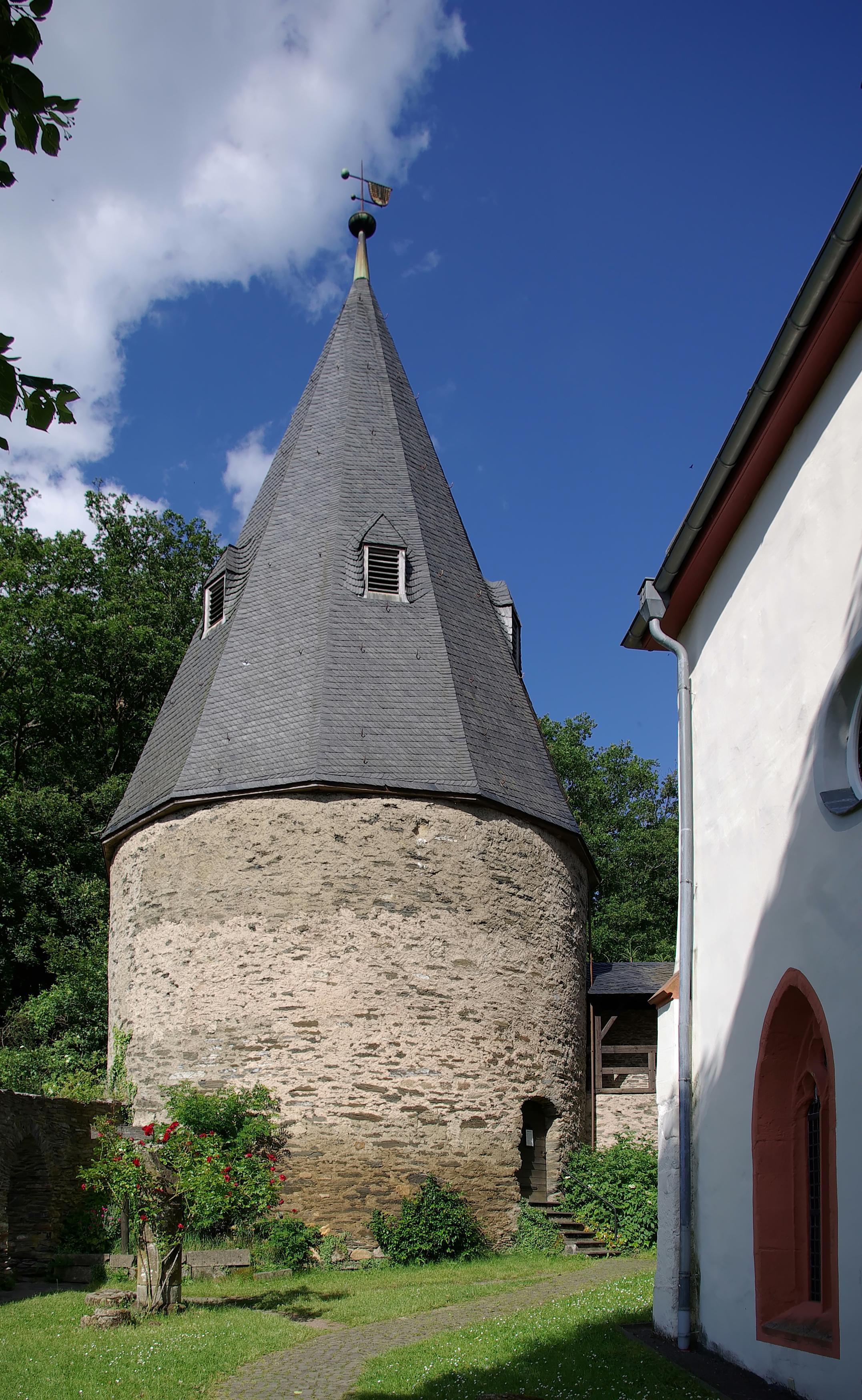 Germany, Herrstein, Bell tower